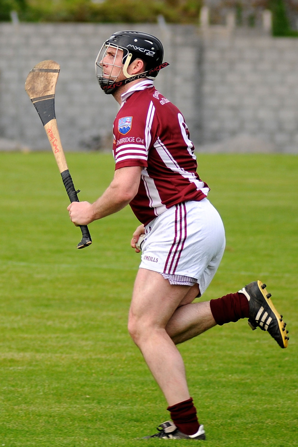 David Forde in action for Clarinbridge against Killimordaly in the 2013 Galway Senior Hurling Championship